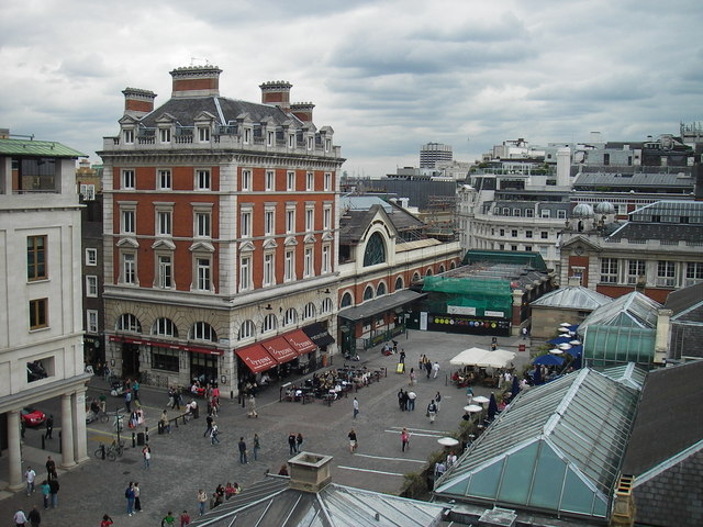 Covent Garden Piazza with London Transport Museum. The prominent red brick building is a wine bar. Beyond it with a row of arches and a pediment is London Transport Museum . Currently being restored, the building was the flower market at Covent Garden, built in 1872. The glass roofs on the right were the main fruit and vegetable market built in 1830, with the glass roof added in the 1870s. It is now an area of shops and cafes. Photo from the amphitheatre terrace of the Royal Opera House, early evening.